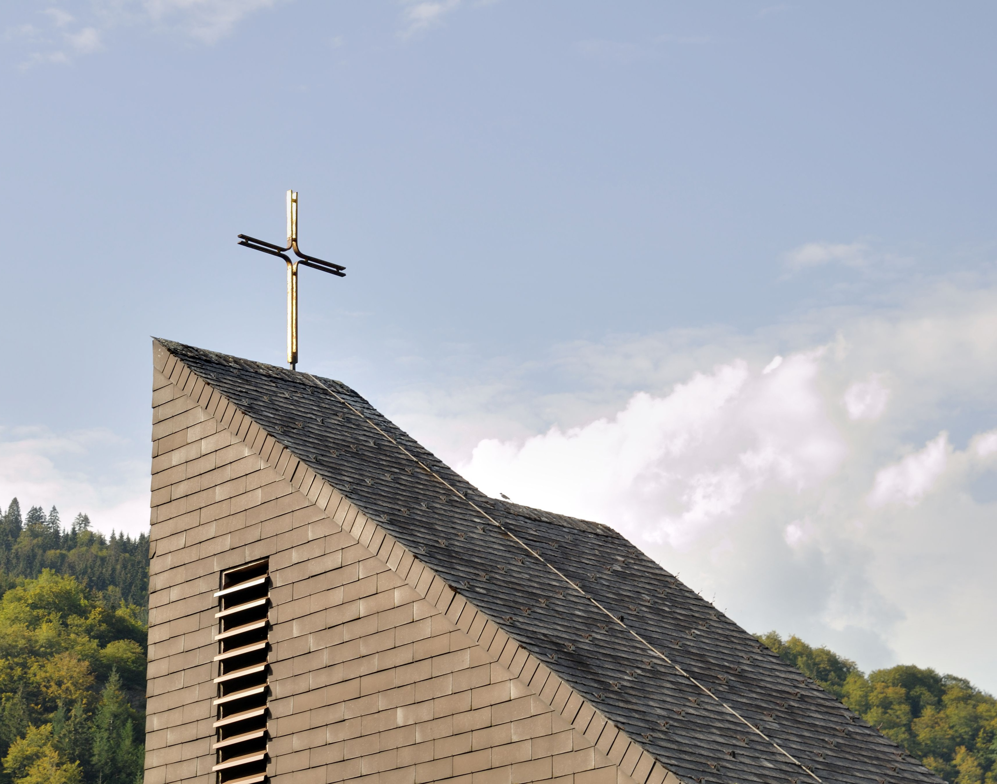 Schlechtnau: Regina Coeli Church